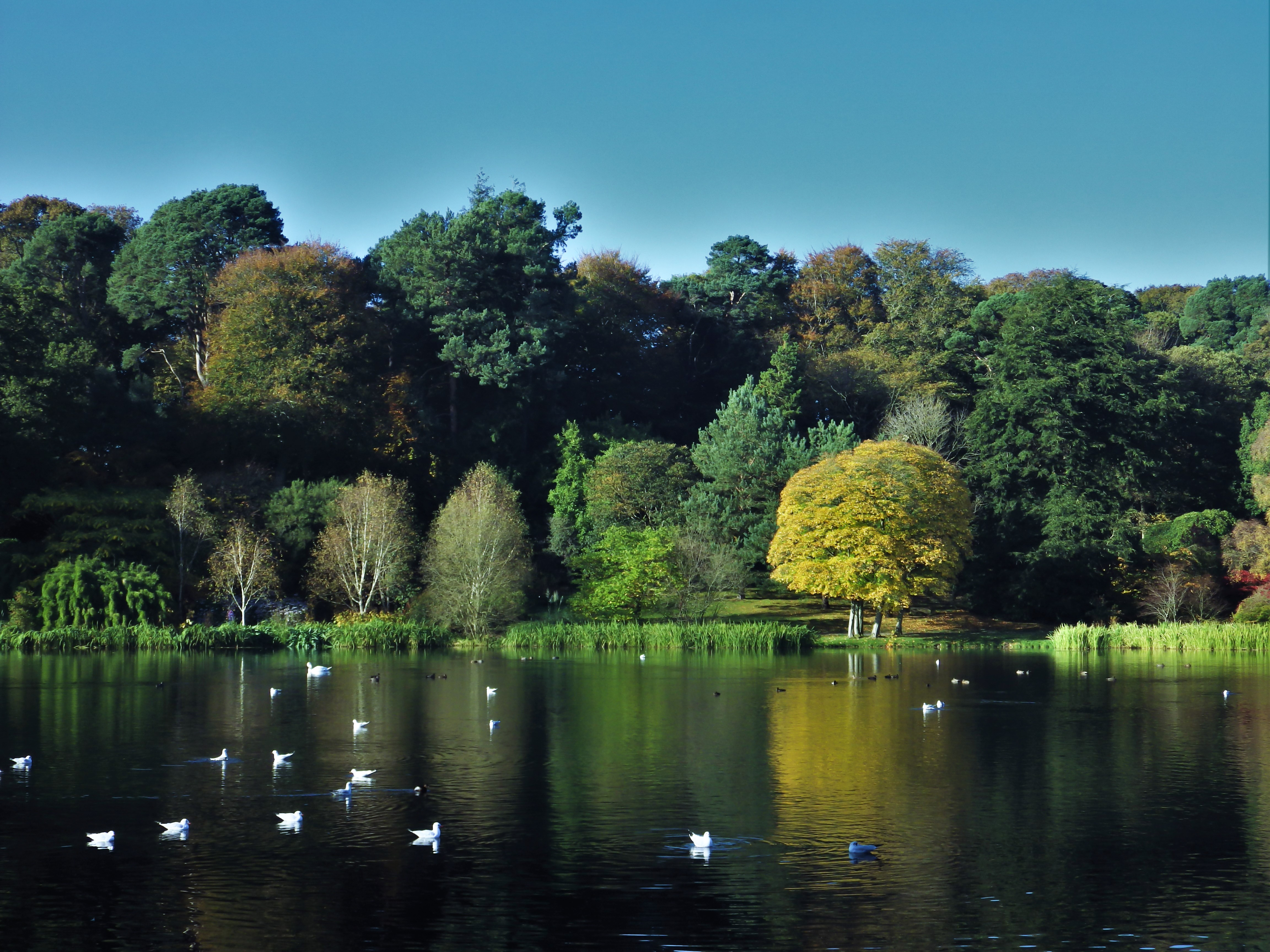 The lake at Mount Stewart, near Strangford Lough, Northern Ireland - October 2016